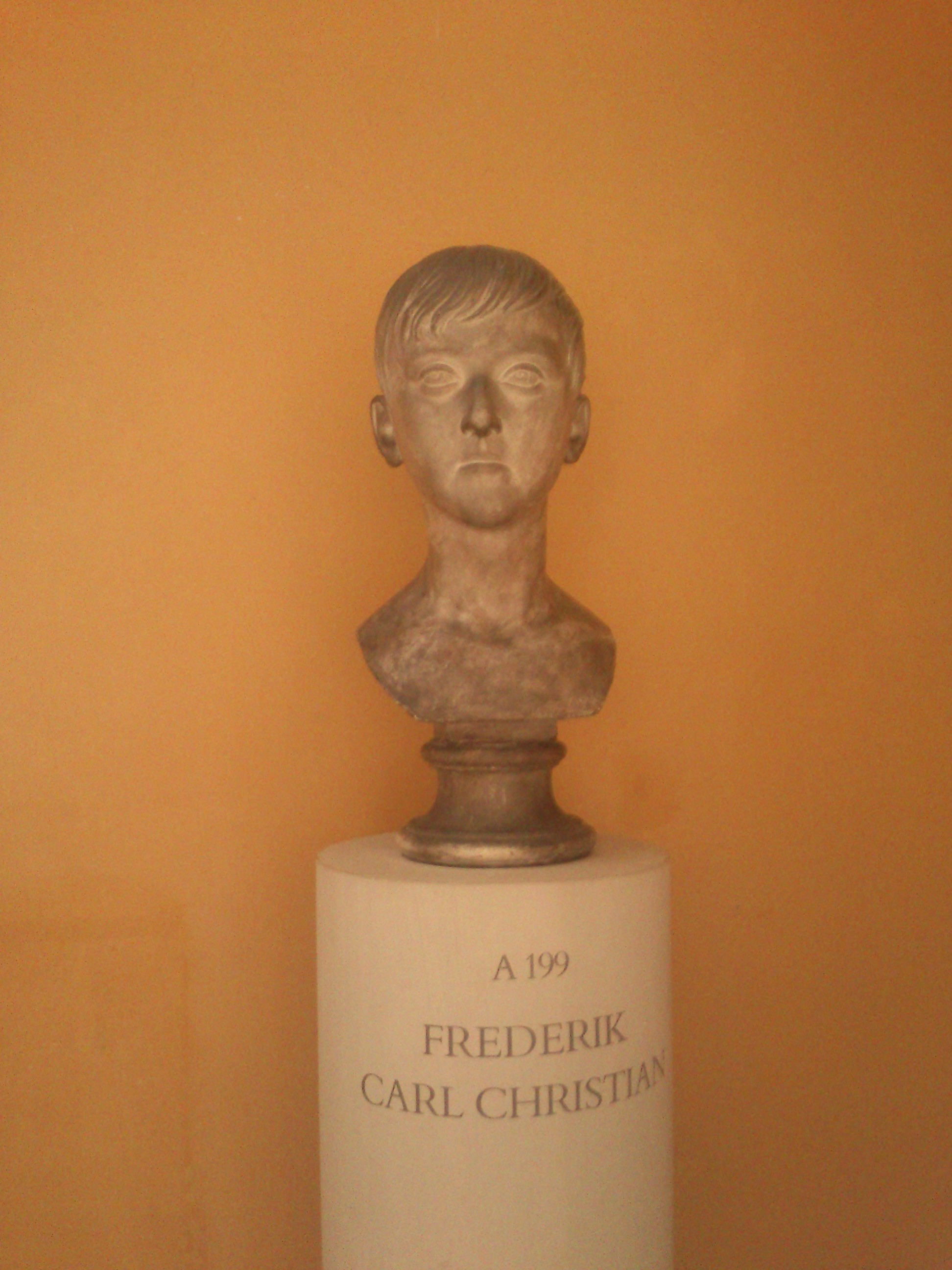 A sculpture of Frederik the 7th, it's made by Bertel Thorvaldsen.